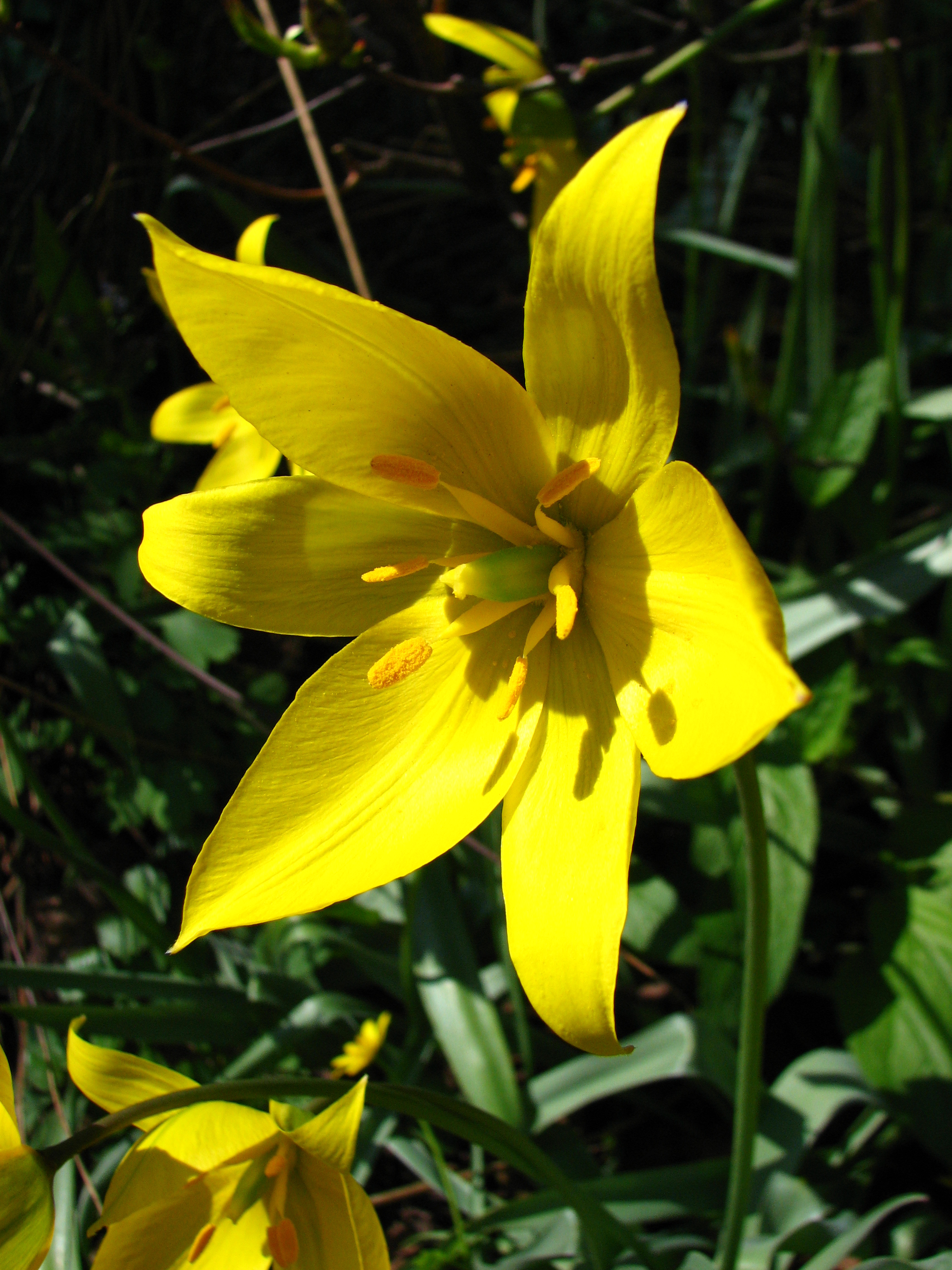 Tulipa sylvestris in flower beds in the Botanical Garden of Moscow State University "Aptekarsky Ogorod".